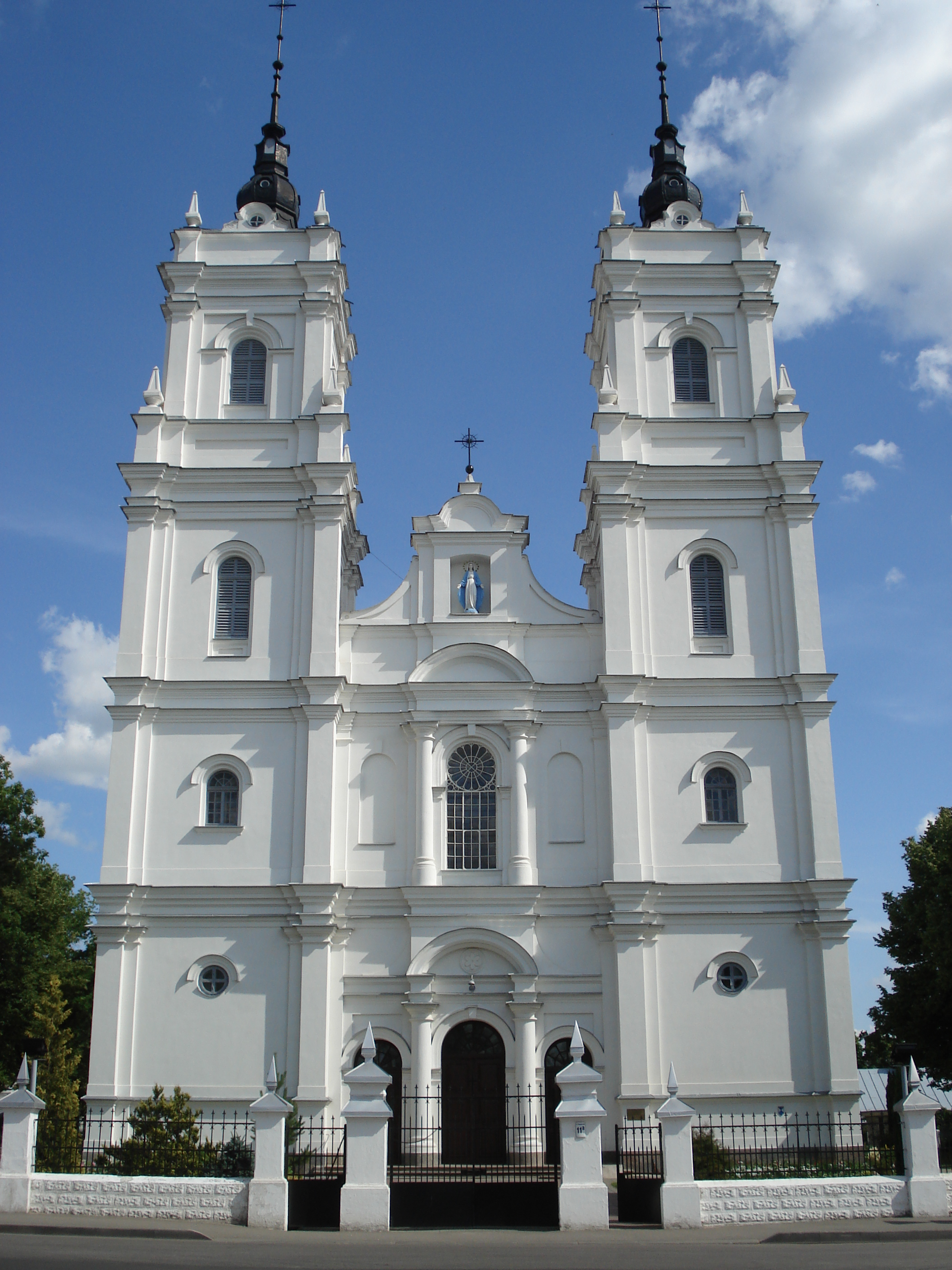 Daugavpils Immaculate Conception of the Blessed Virgin Mary Roman Catholic Church. Address: 11a A.Pumpura St. Latgaļu: Daugpiļs Jumprovys Marejis bezvaineiguos ījimšonys Romys katuoļu bazneica. Adress: A.Pumpura ūļneica 11a